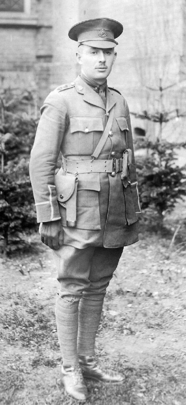 Photo of William Fatt – Lieut. W.M.Fatt taken 1915-16